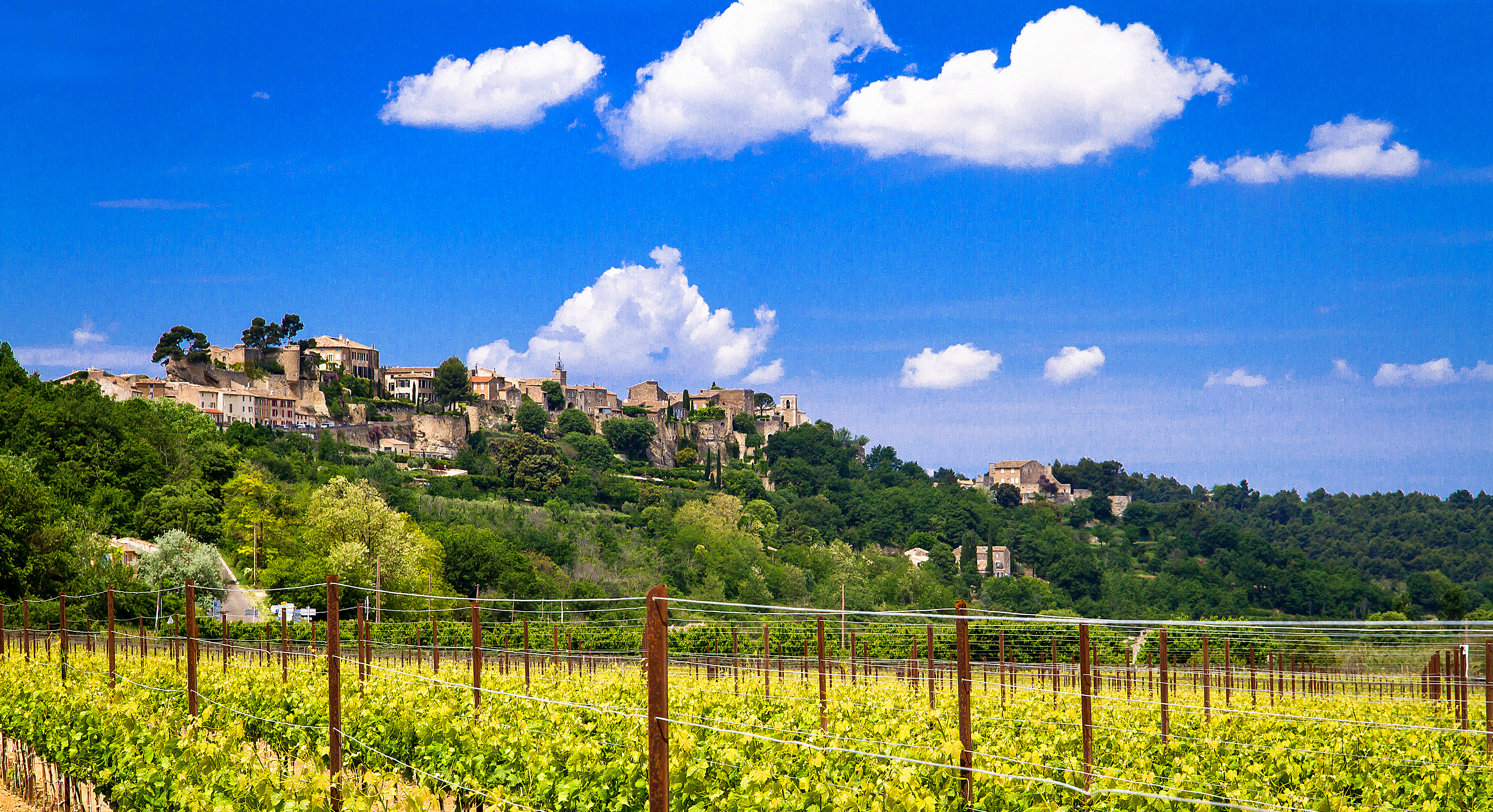 Ménerbes